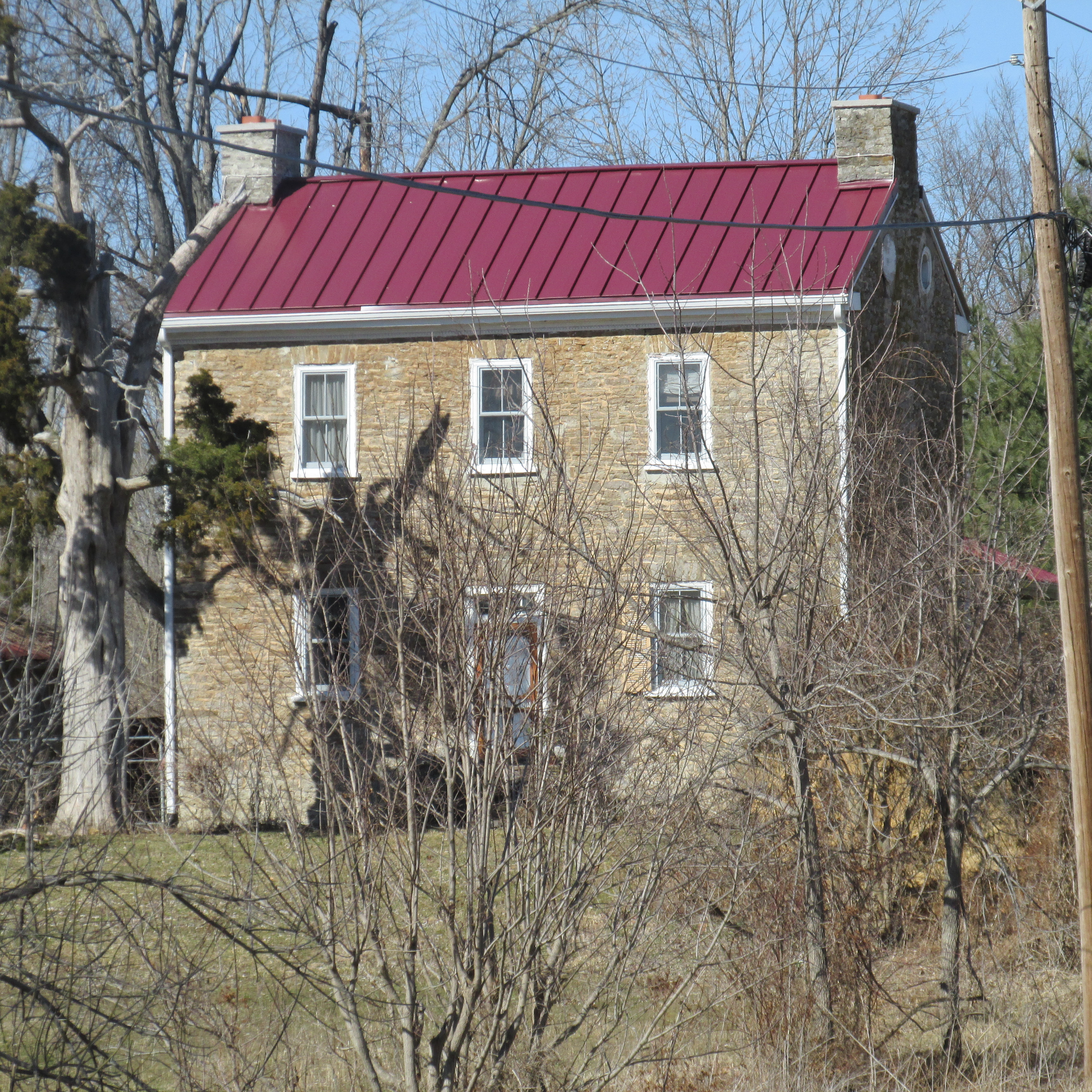 William Winter Stone House located on Ohio Highway 133 in Clermont County, Ohio.